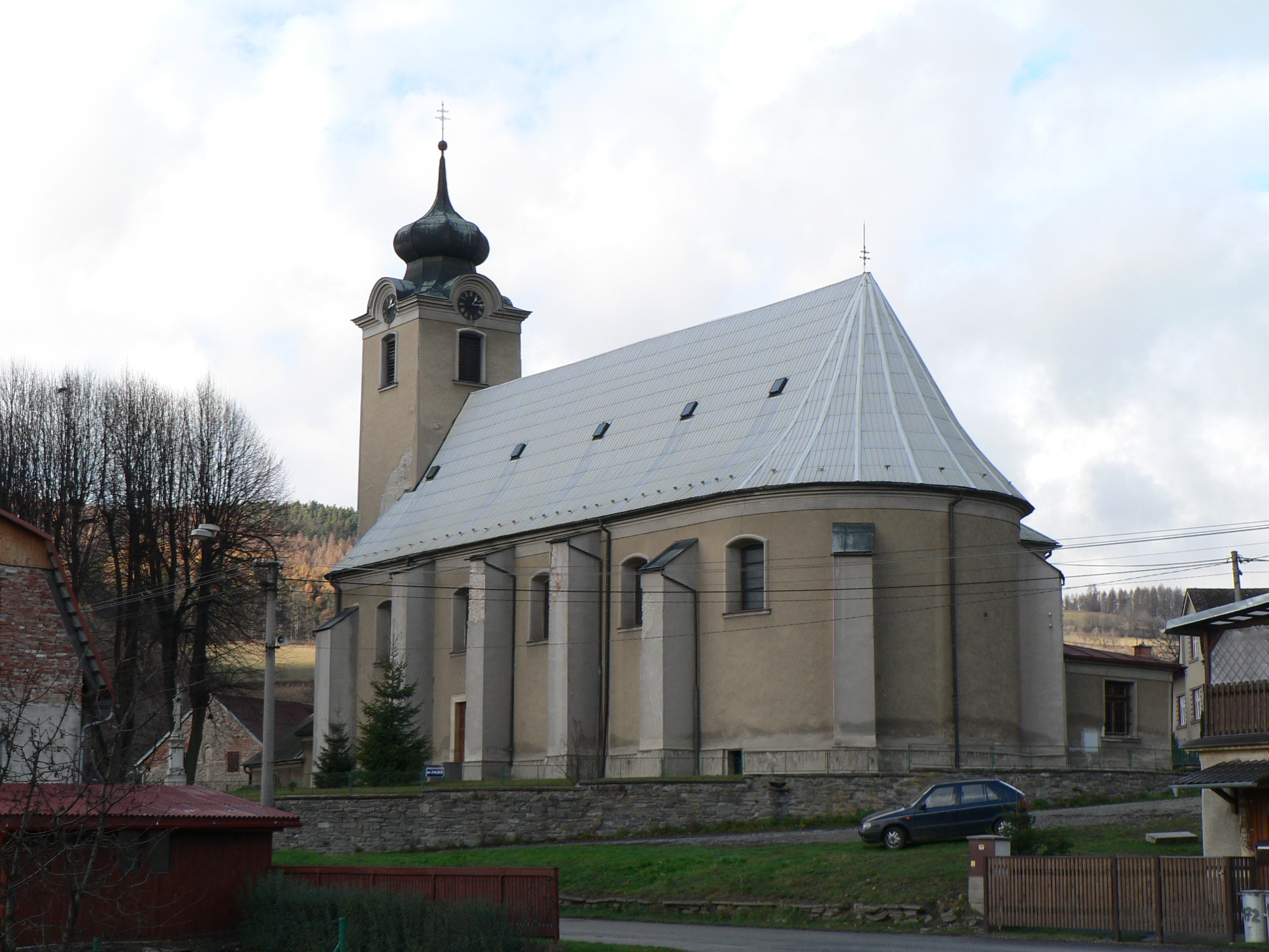 Ruda nad Moravou, Šumperk District, Czechia. Church of Saint Lawrence.